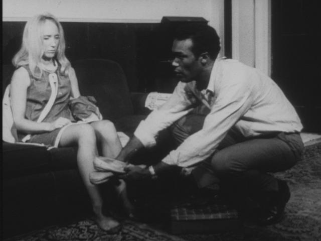 Actor Duane Jones as Ben gives actress Judith O'Dea, playing Barbra, her slippers in a scene from the movie Night of the Living Dead